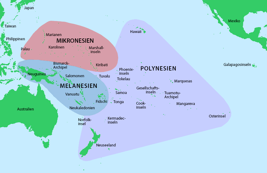 Major culture areas of Oceania: Micronesia, Melanesia, and Polynesia. Melanesien Mikronesien Polynesien